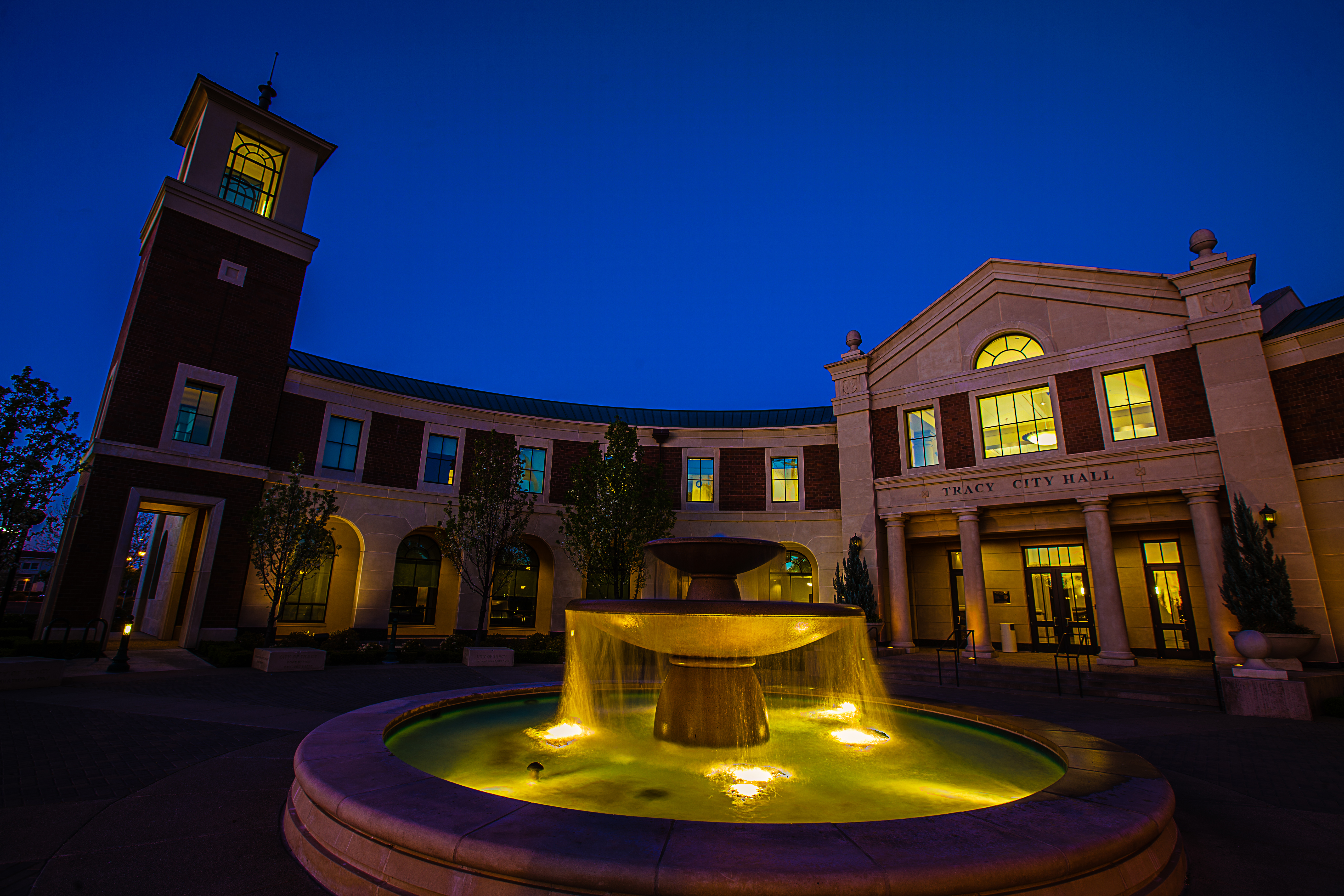 Tracy City Hall